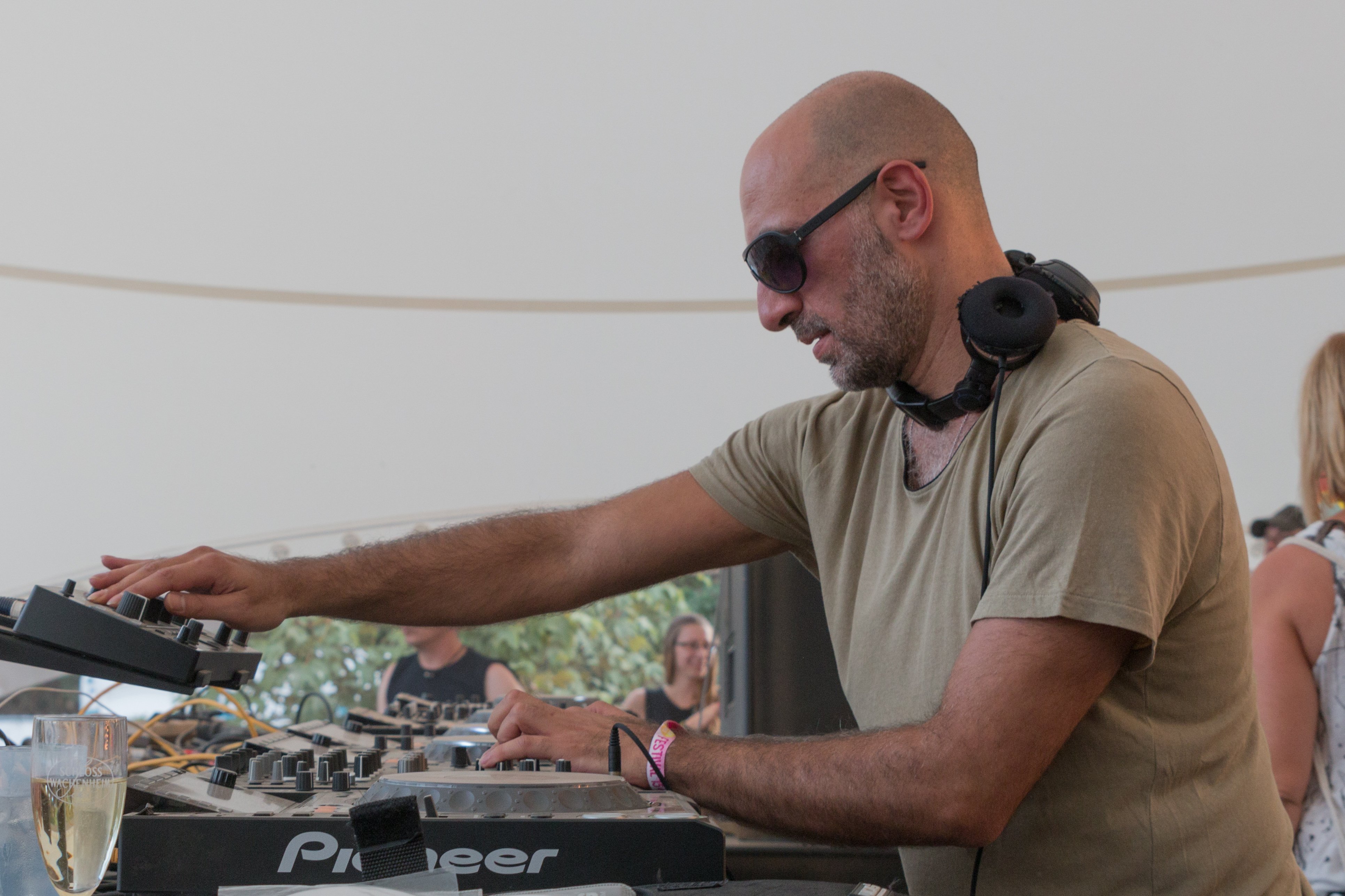 Len Faki at the Sea You Festival in Freiburg im Breisgau on July 19th, 2015.